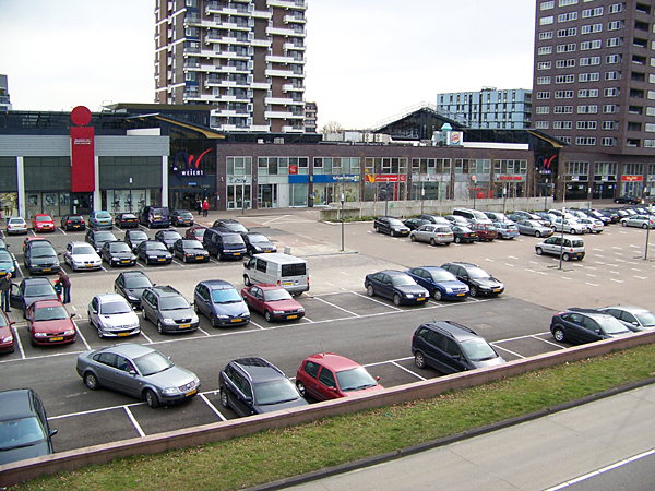 Parking lot in Emmen, The Netherlands